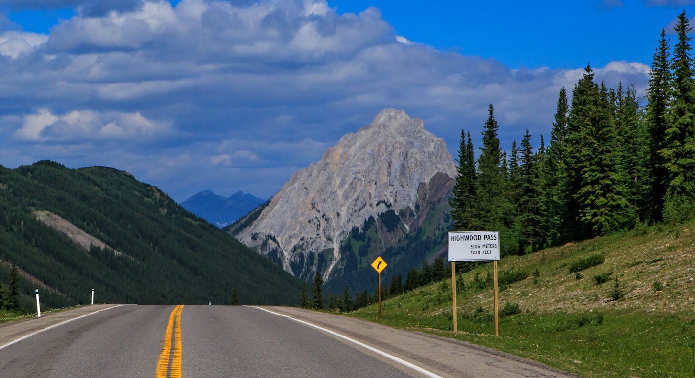 Highwood Pass view of Gap Mountain, Alberta Highway 40